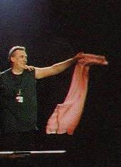 Bill Ward with Black Sabbath on stage at Schleyerhalle in Stuttgart, Germany. "Reunion Tour".